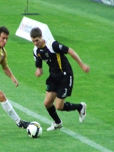 Tony Lochhead takes on a player at a Wellington Phoenix game.